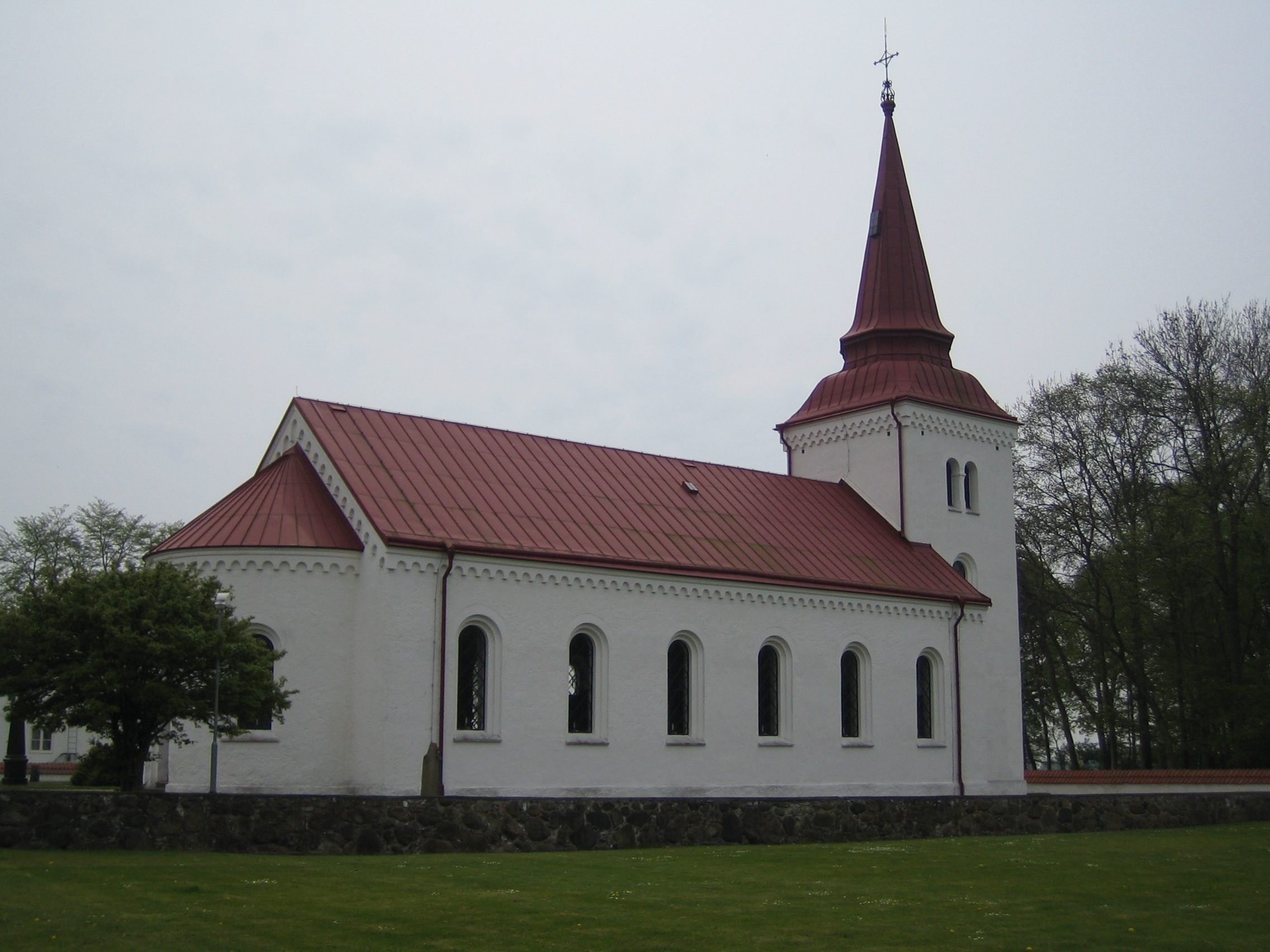 Östra Torps church, Sweden